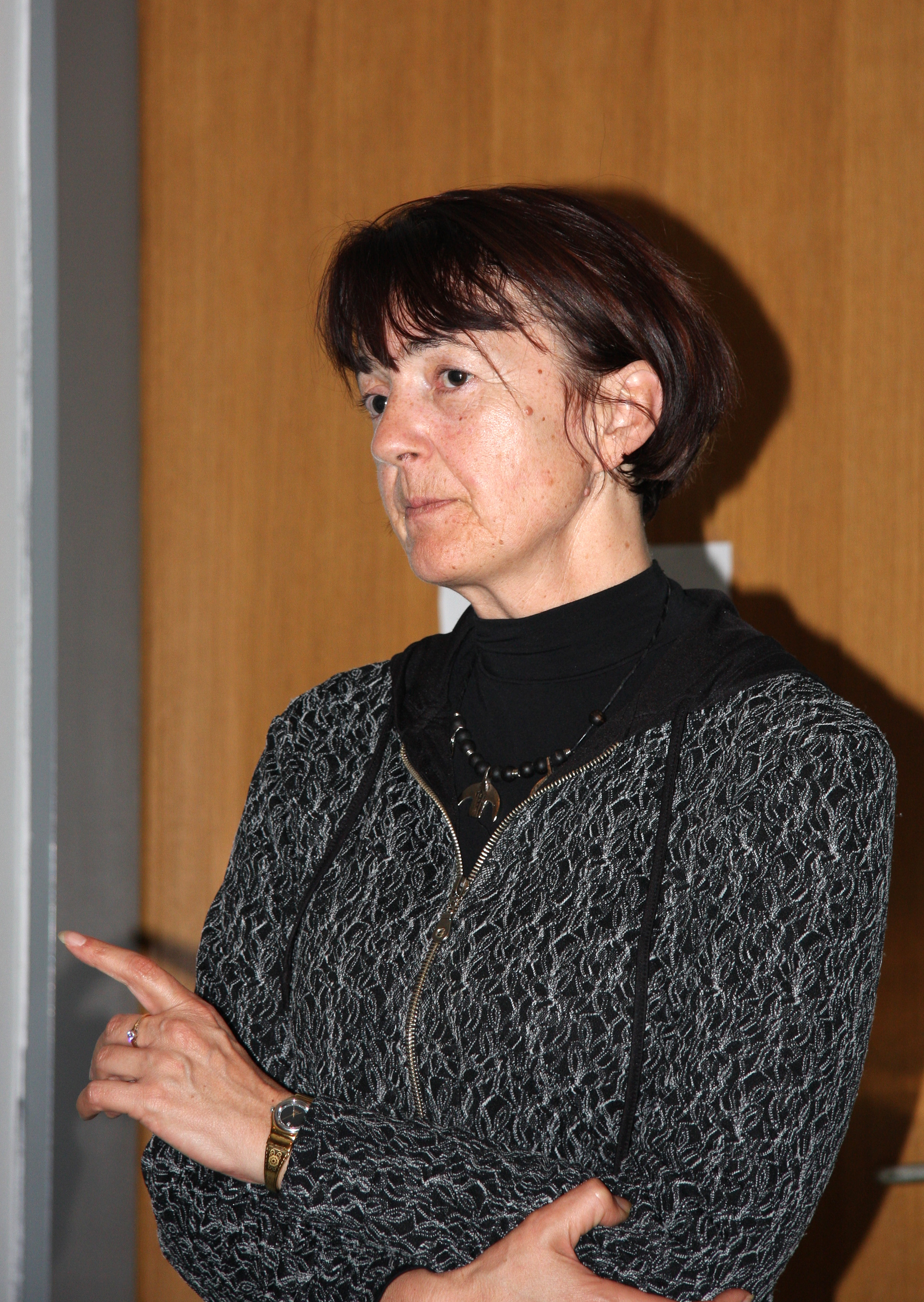 Lučka Kajfež Bogataj, climatologist and member of the IPCC from Slovenia, during a lecture at the Dept. of Biology, Biotechnical faculty, Ljubljana